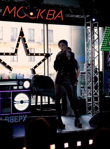 MARUV, a Ukrainian singer, composer, poet and producer.